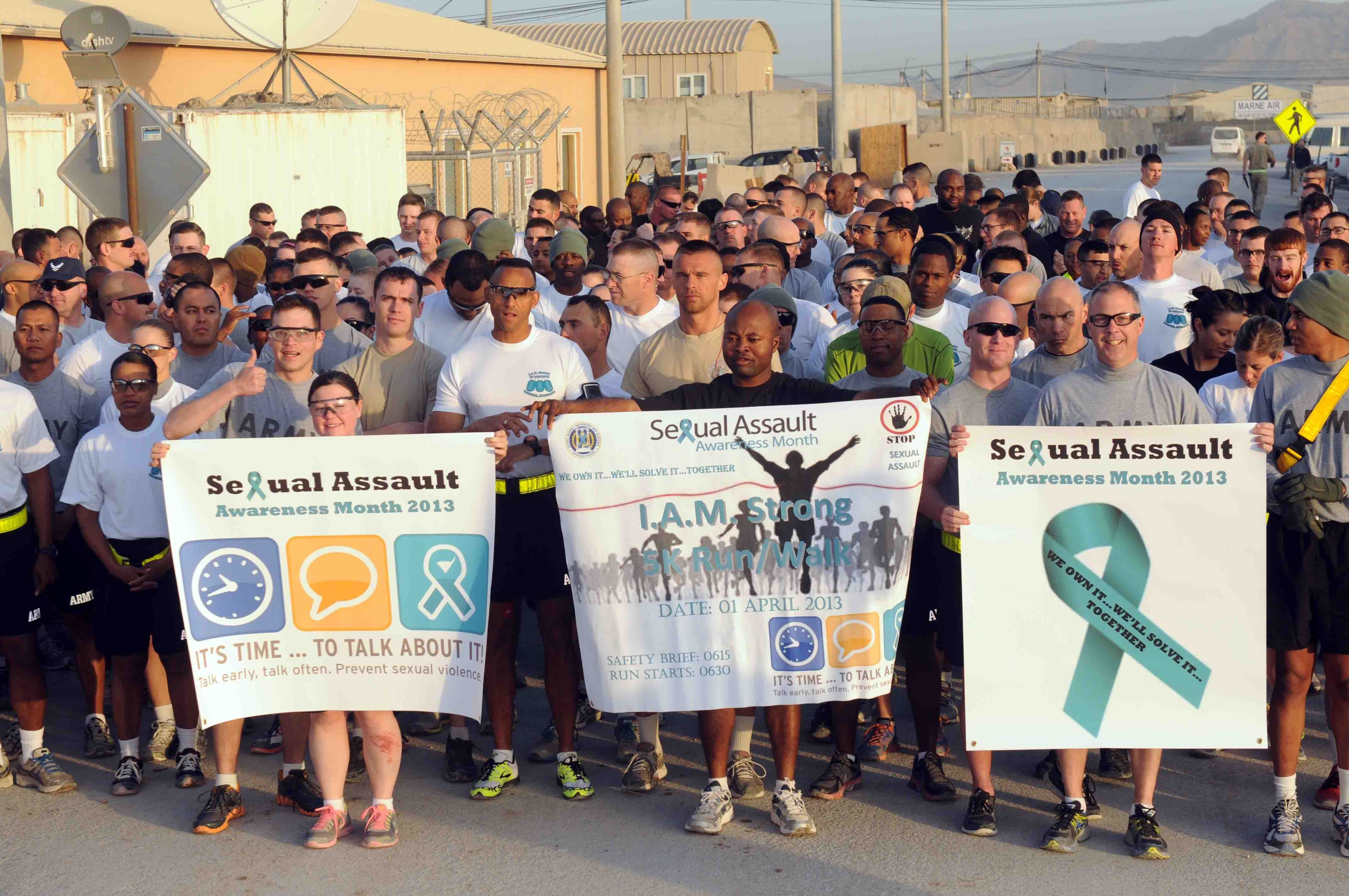 U.S. Service members and civilians pose for a group photo before the start of a 5K Run/Walk in support of Sexual Assault Awareness Month (SAAM) at Kandahar Airfield in Kandahar province, Afghanistan, April 1, 2013. The goal of SAAM is to raise public awareness about sexual violence and to educate communities and individuals on how to prevent sexual violence. (U.S. Army photo by Sgt. Ashley Bell/Released)